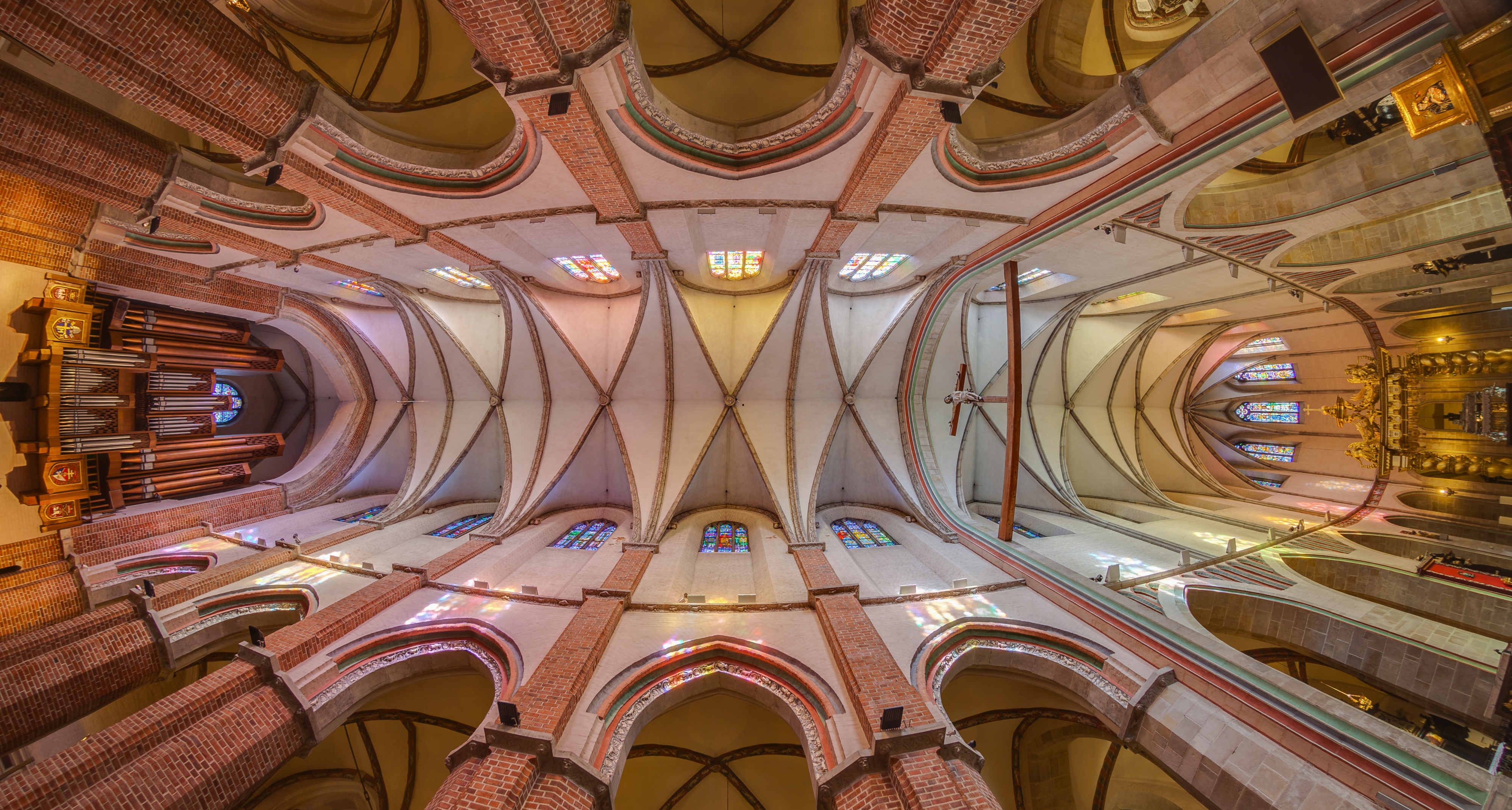 Round view of the interior of the Royal Gniezno Cathedral, located in the historical city of Gniezno, old capital of Poland (before Kraków and Warsaw) located in the Greater Poland Voivodeship. The cathedral served as the coronation place for several Polish monarchs and as the seat of Polish church officials continuously for nearly 1000 years. Throughout its long and tragic history, the building stayed mostly intact making it one of the oldest and most precious sacral monuments in Poland. The religious temple dates back to the end of the ninth century, when an oratory was built in the shape of a rectangular nave. At the end of the tenth century Duke Mieszko I of Poland built a new temple on a cruciform plan and remodeled the existing nave oratory. Prince Bolesław I the Brave, later the first king of Poland, rebuilt the temple according to the plan of a rectangle, elevating it later to the rank of a Cathedral.